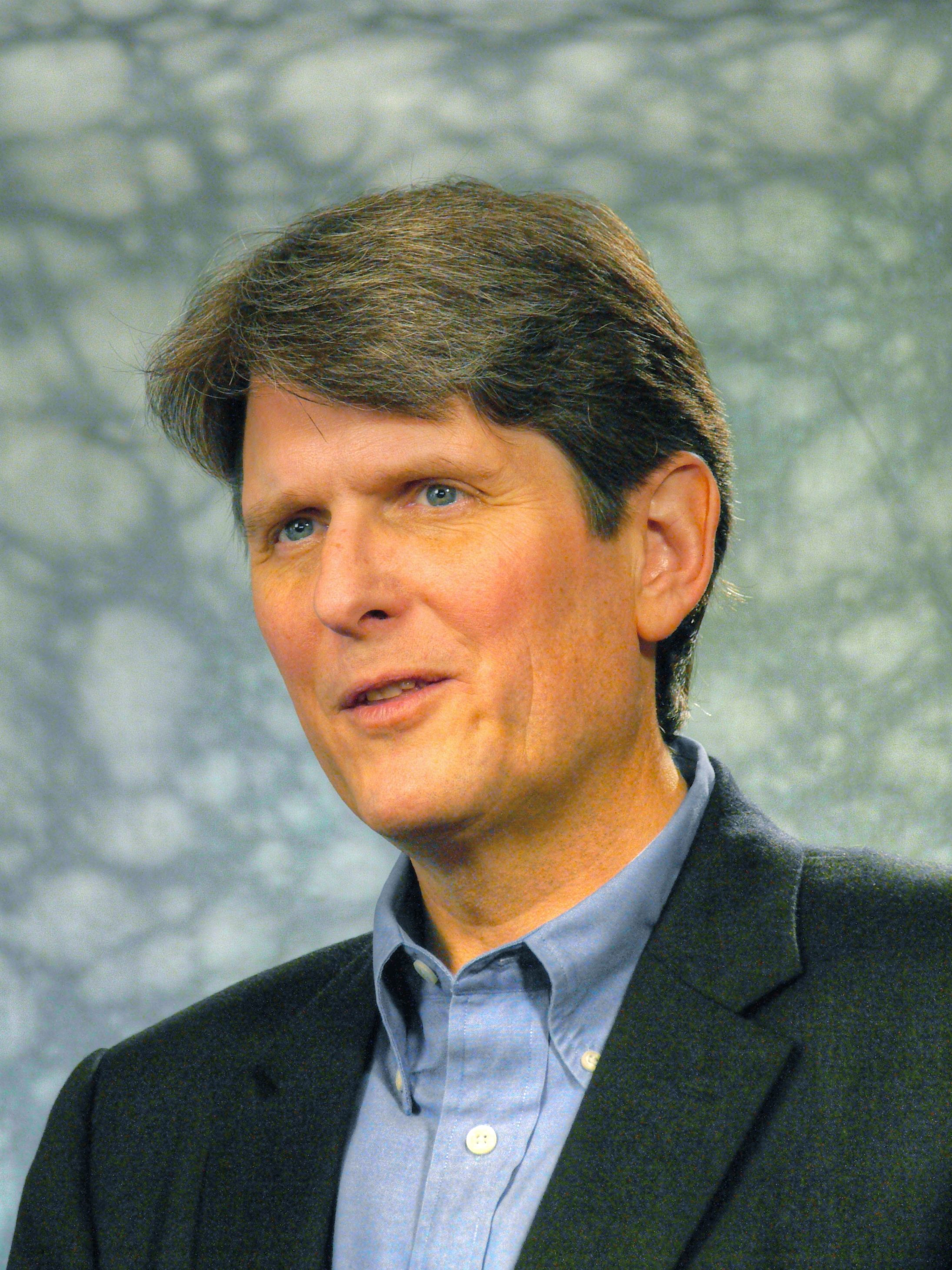 Bob Massie Speaking, Somerville Massachusetts